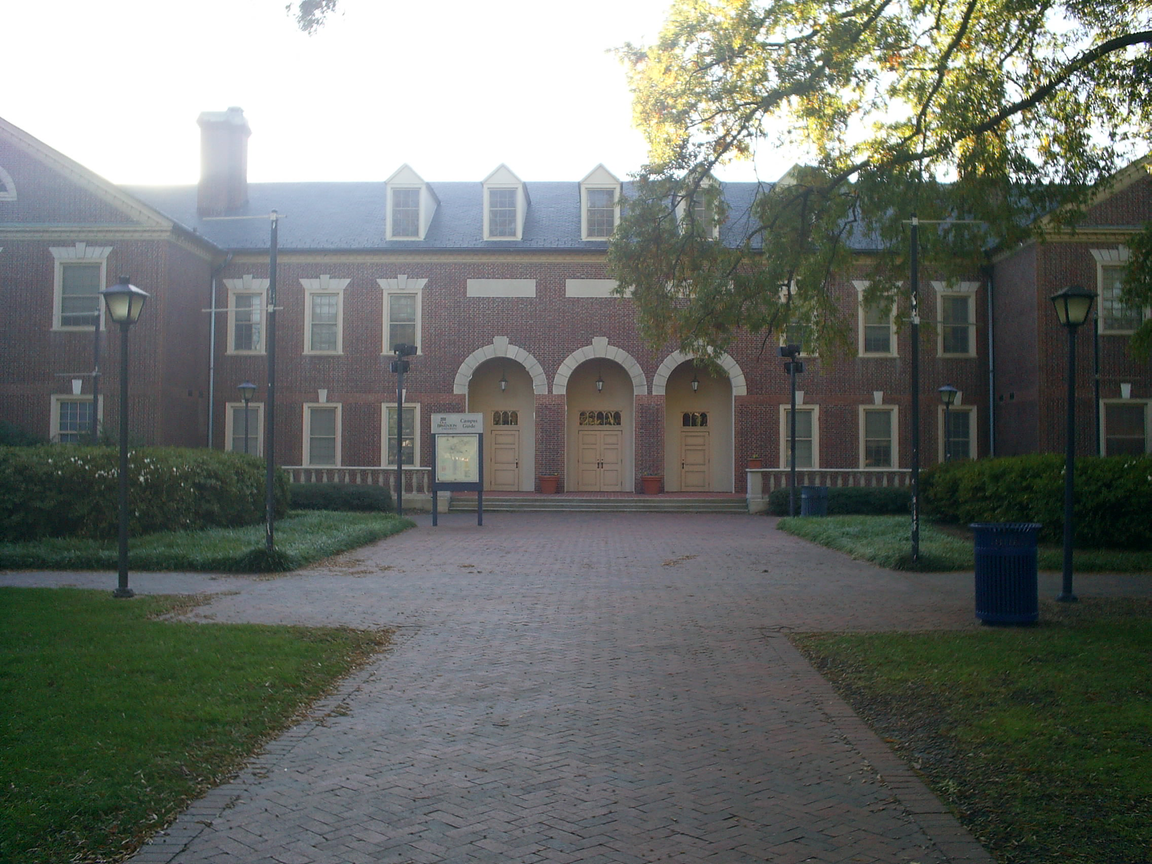 Old Dominion University campus